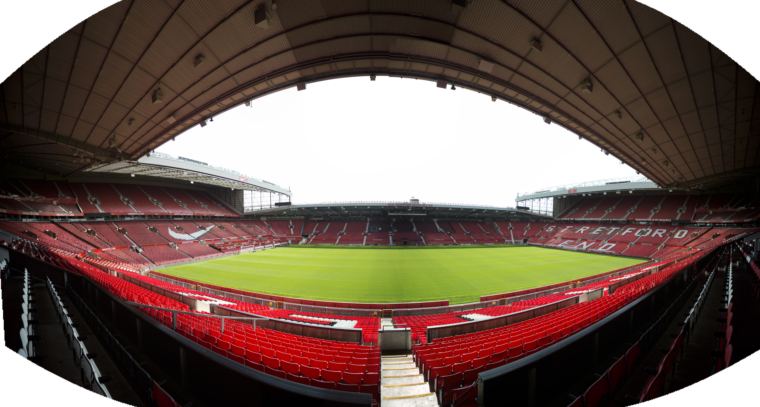 Manchester United Panorama